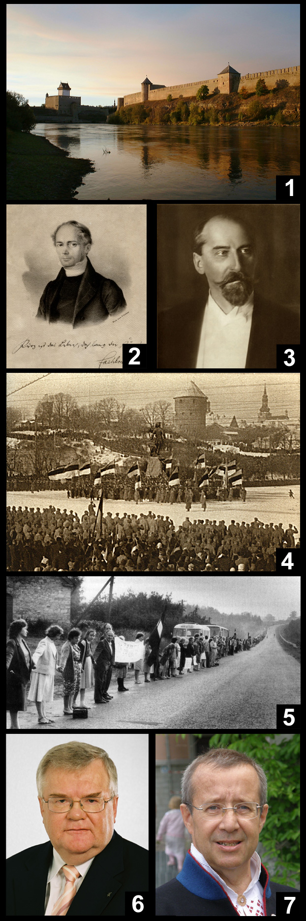 Images montage of people and events of the history of Estonia. From up to down and from left to right : fortress of Narva (to the left) overlooking the Russian fortress of Ivangorod, Friedrich Faehlmann (1839), Jaan Tonisson (1868-1941?), the first celebration of Estonian Independence Day (1919), the Baltic Way (1989), Edgar Savisaar, Toomas Hendrik Ilves president of Estonia in 2010